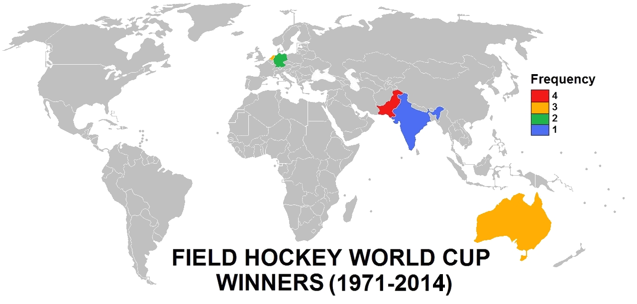 Field Hockey World Cup Winners